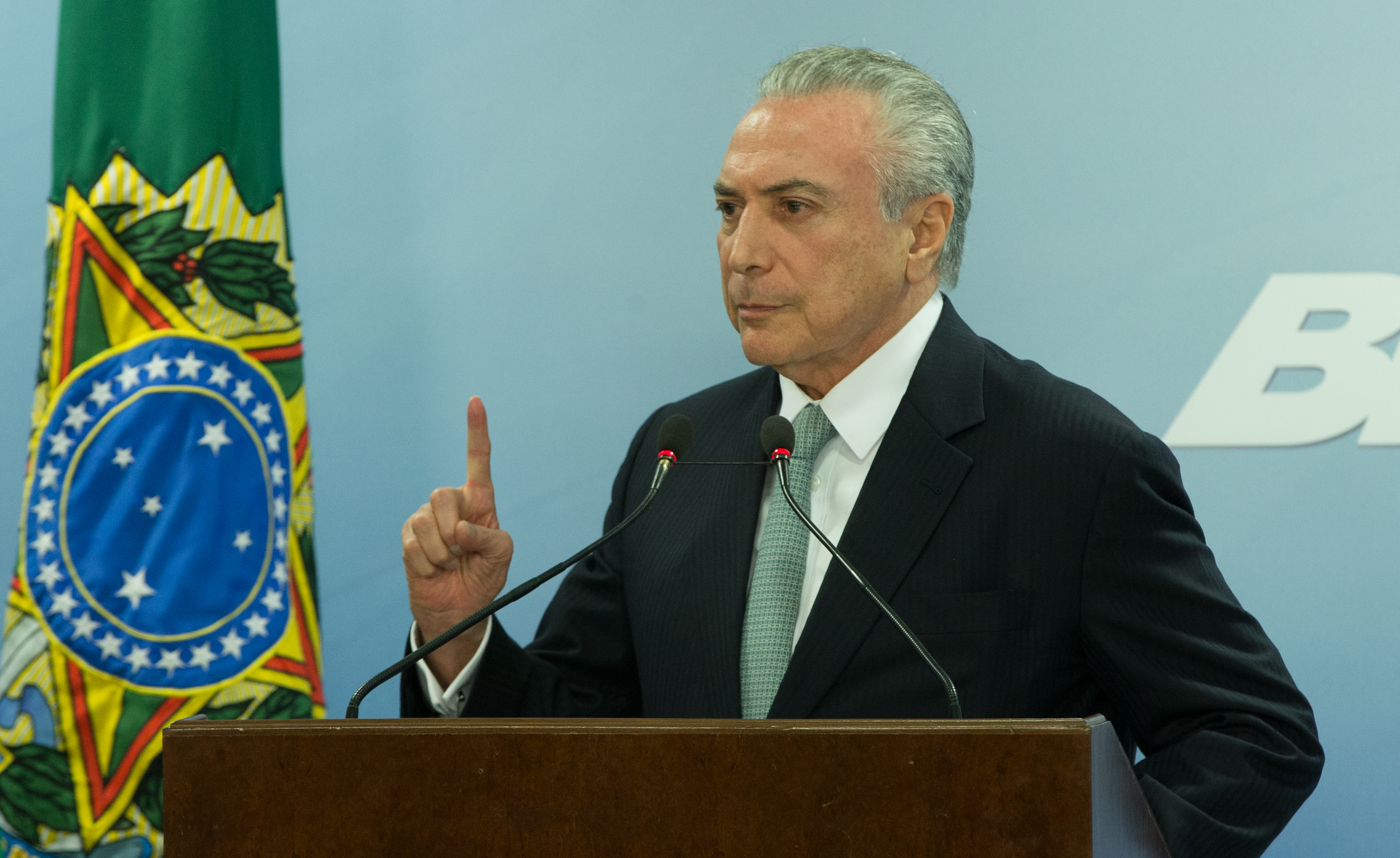 Brasília 18/05/2017 - Presidente Michel Temer durante pronunciamento. Foto: Lula Marques/Agência PT